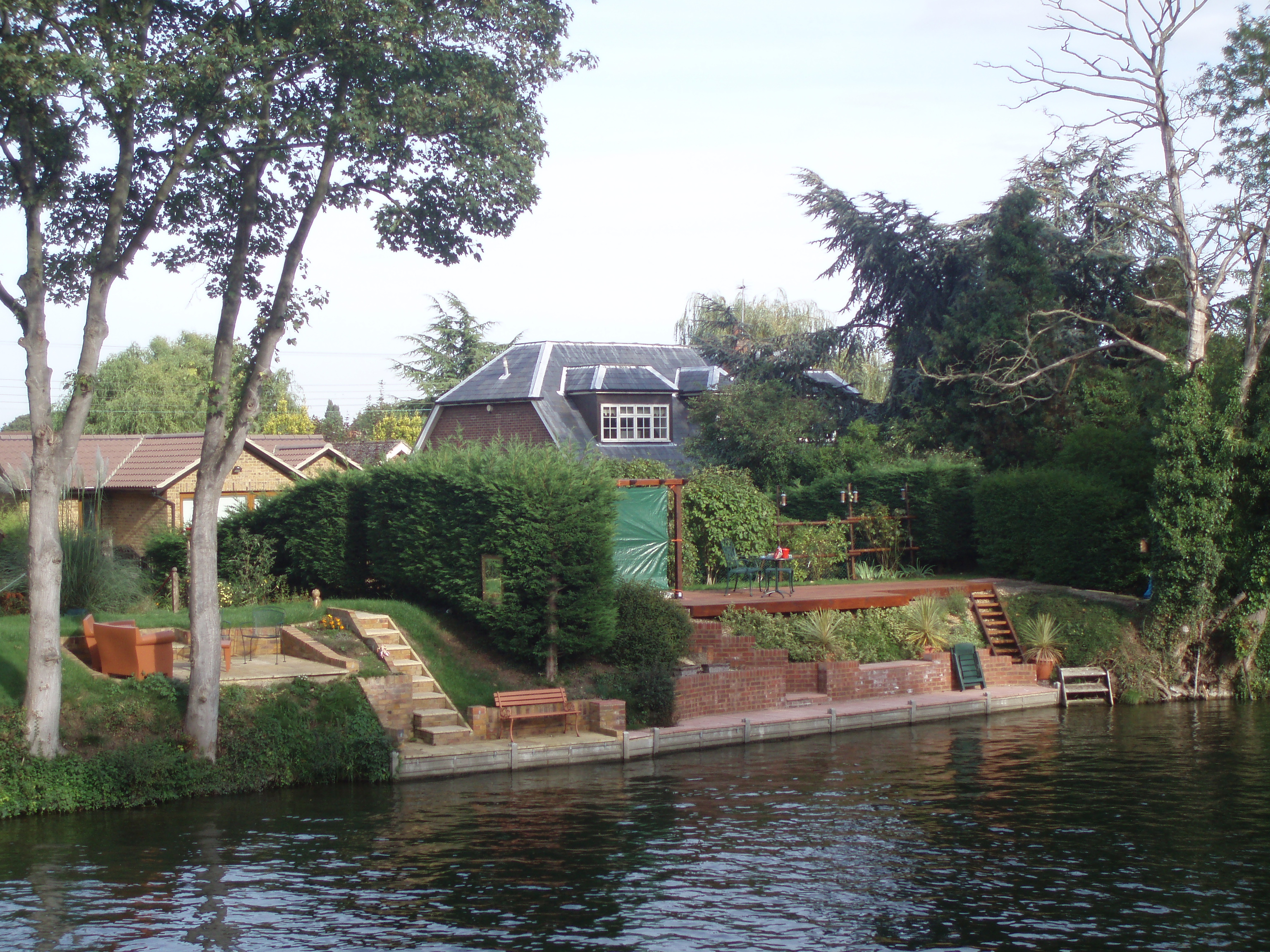 Taken by Matthew Eyre September 17th 2006